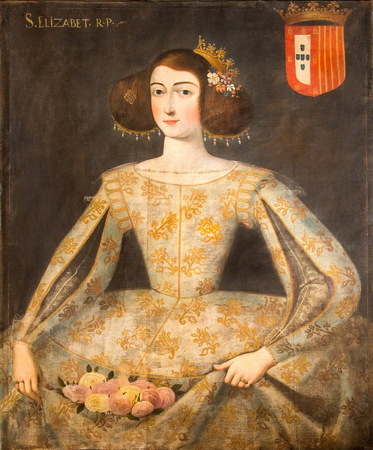 Saint Elizabeth of Aragon, Queen of Portugal